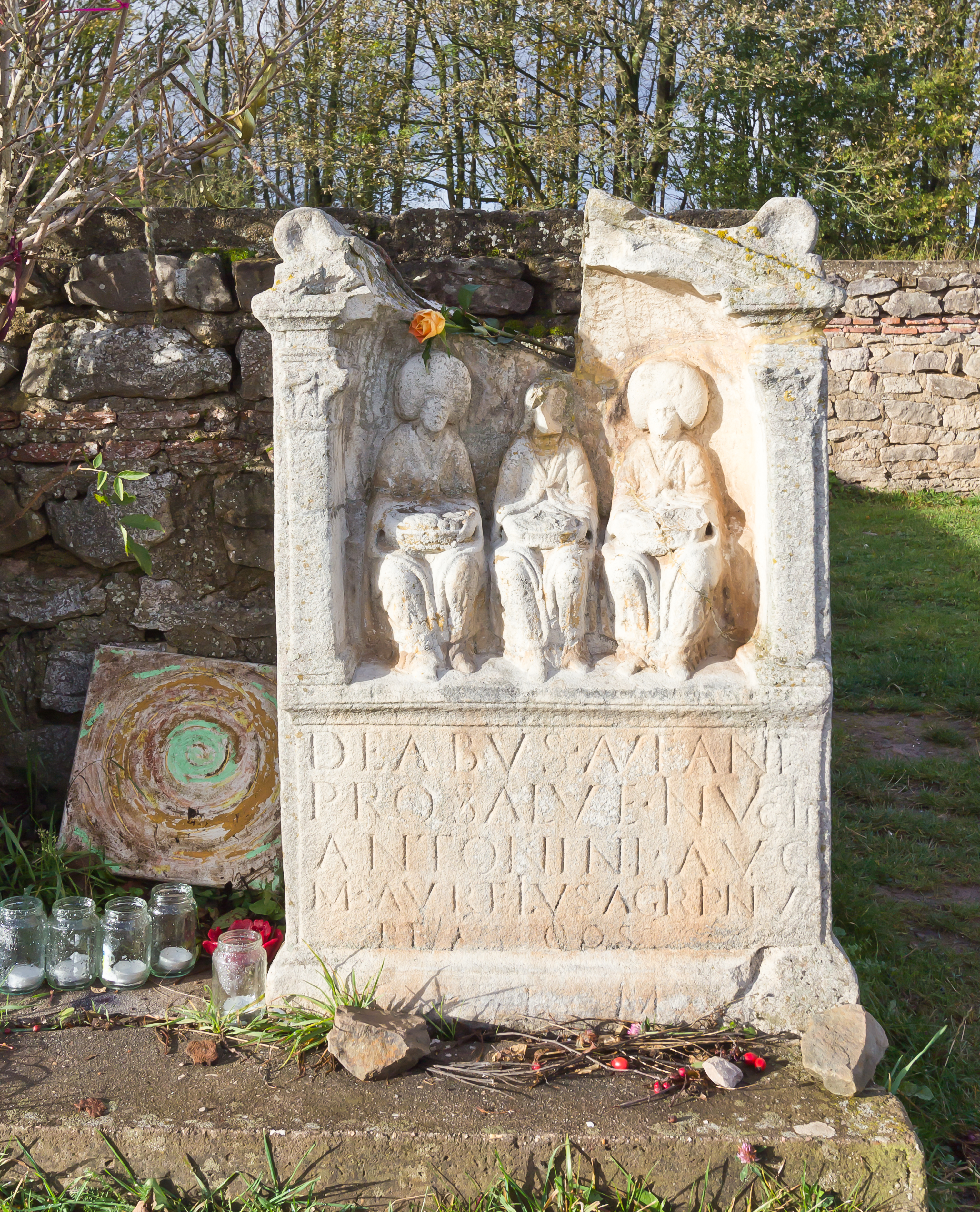 Roman-Germanic Matres and Matrones: Replica of an altar for the Mothers of Aufania (Matronae Aufaniae) from Nettersheim, Germany (around 211 – 217 AD; temple area Görresburg near Nettersheim; CIL XIII, 11984 = D 09330 = Lehner 00278 = AE 1911, 156).